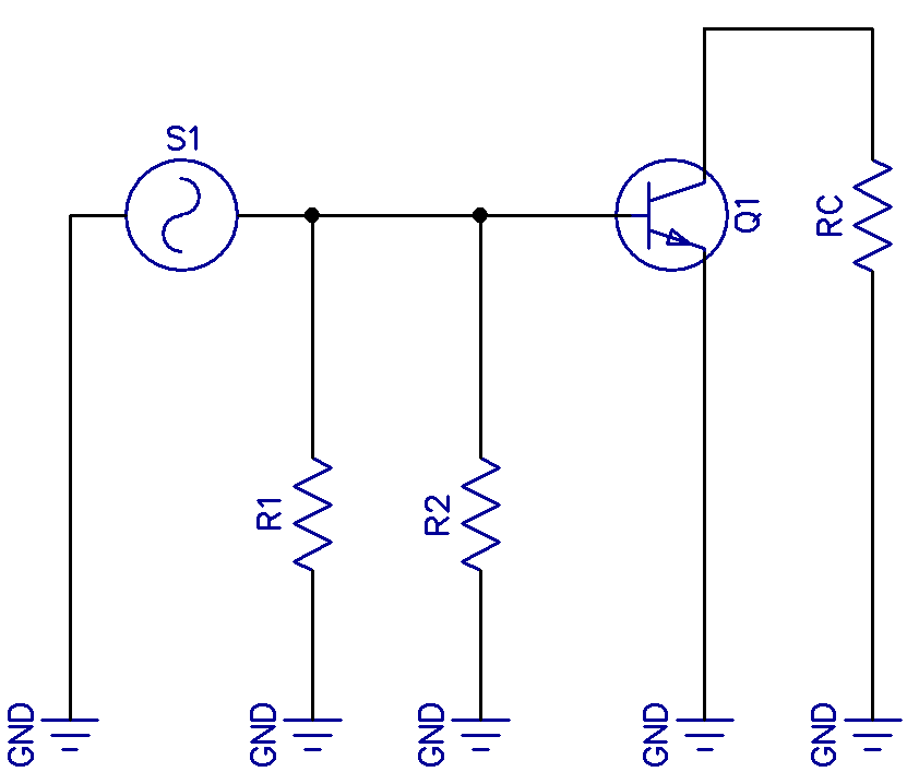 The AC equivalent circuit of a common-emitter amplifier with voltage divider-bias.